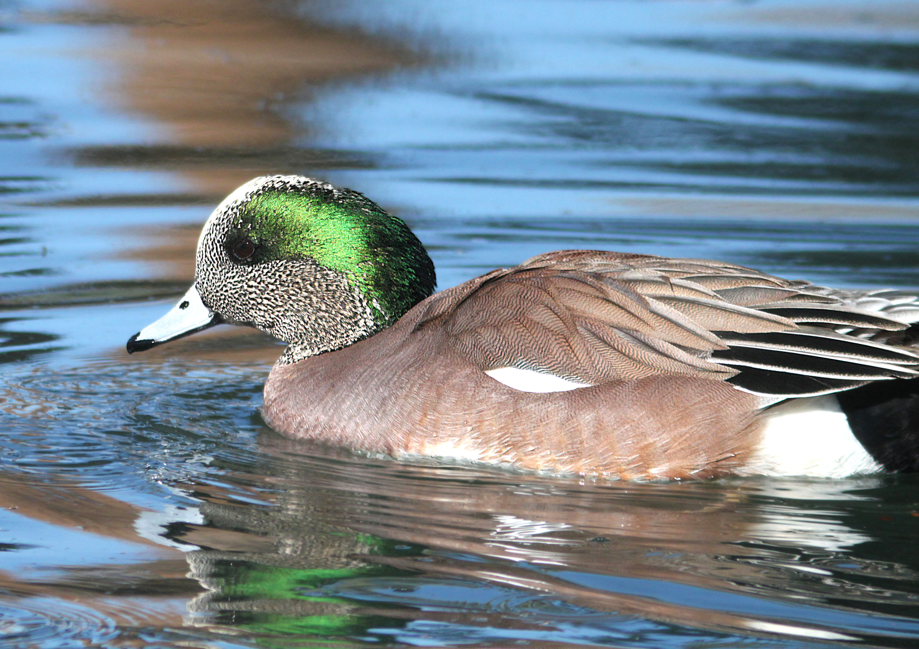 ABA AREA BIRDS: My Photo "Life List"